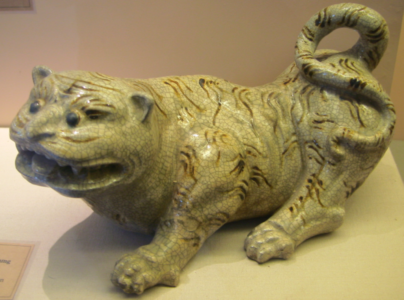 A ceramic statue of tiger manufactured by artists from Bát Tràng village (Northern Vietnam) in the mid-18th century.